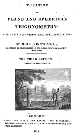 Frontpage of A Treatise on Plane and Spherical Trigonometry (third edition, 1816) by John Bonnycastle (1751-1821)